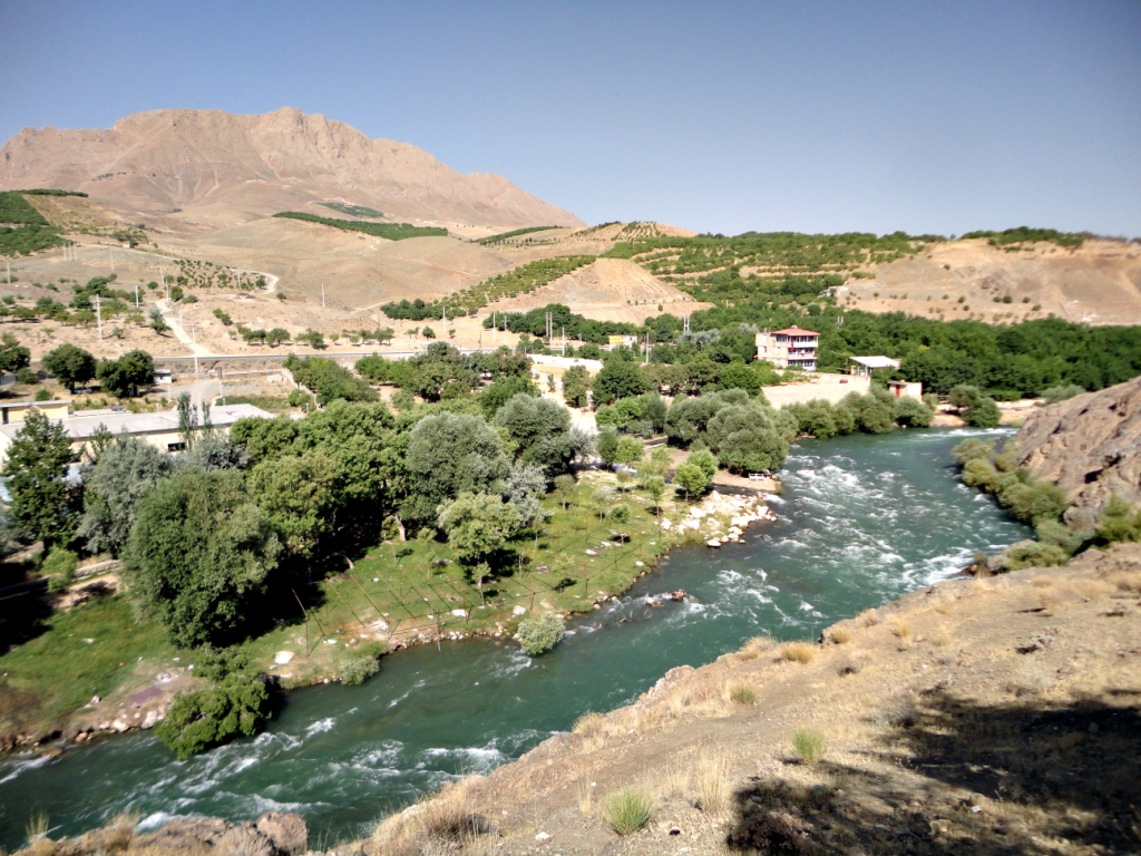 Zayanderud